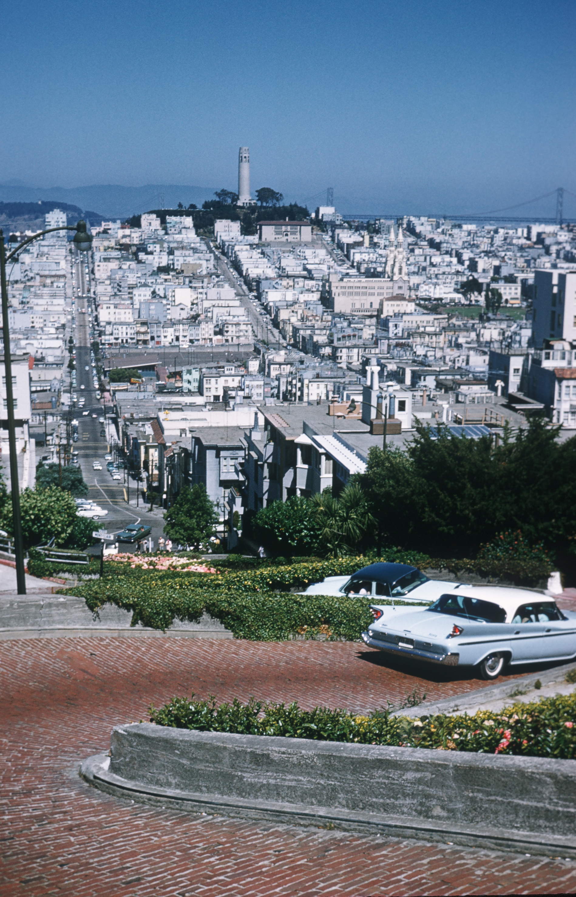 Cars driving down serpentine portion of Lombard Street with Coit Tower in the background.